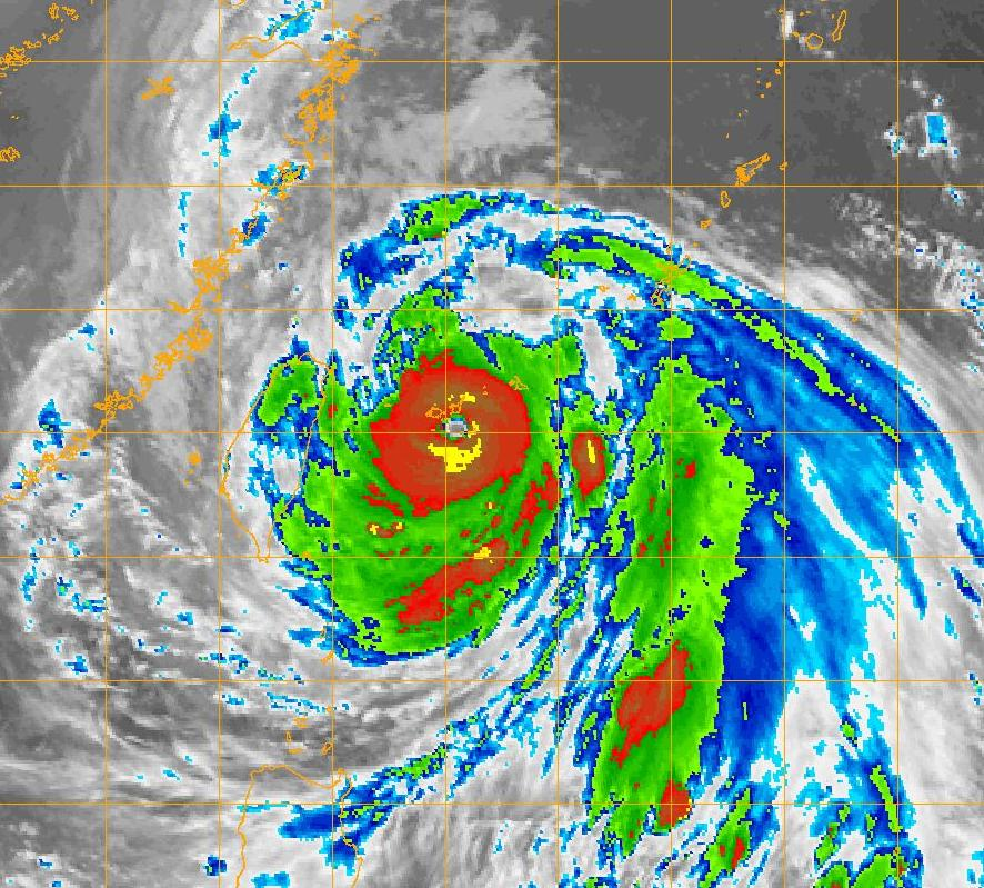 NRL GMS6 IR satellite image taken on September 17, 2007 at 1930 UTC of Typhoon Wipha, cropped from original image.